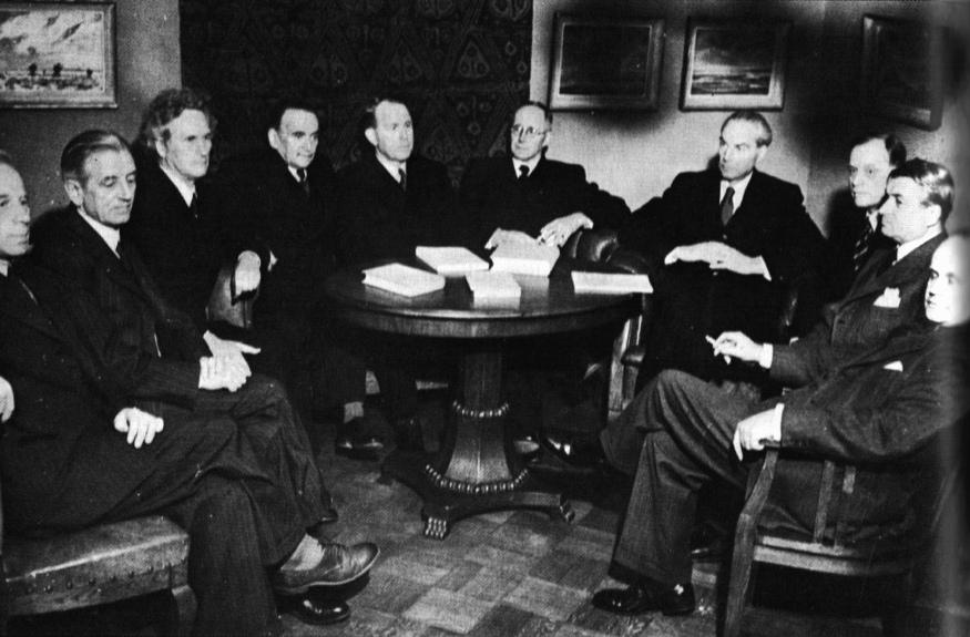 First members of Academy of Finland in April 1948: Yrjö Ilvessalo, Y. H. Toivonen, Yrjö Kilpinen, V. A. Koskenniemi, A. I. Virtanen, Onni Okkonen, Eino Kaila, Rolf Nevanlinna, Wäinö Aaltonen, Erik Palmén (from left to right).